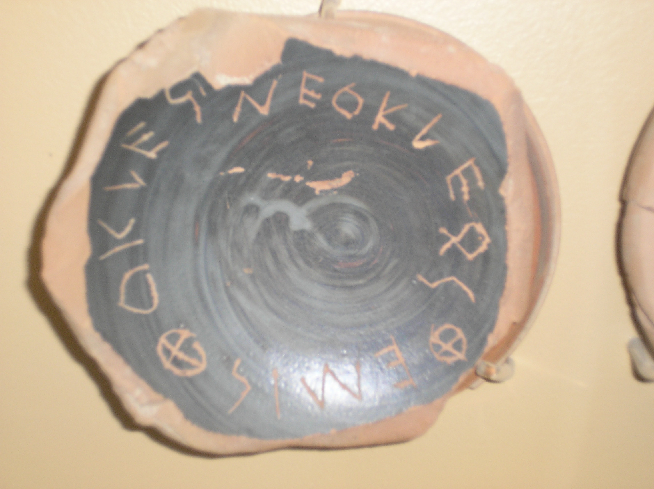 This ostrakon from 482 BC, with the name of Themistokles (spelled "Themisthokles") son of Neokleos, was recovered from a well near the Acropolis. The Athenians had a particular voting technique to remove a citizen from the community. If ostracized, the person was exiled for ten years, and after that time could return and have their property restored. Themistokles was a great Athenian general, but the Spartans worked to have him exiled. After his ostracism, he moved to Persia, Athen's enemy, where King Artaxerxes I made him governor of Magnesia. Ancient Agora Museum in Athens.